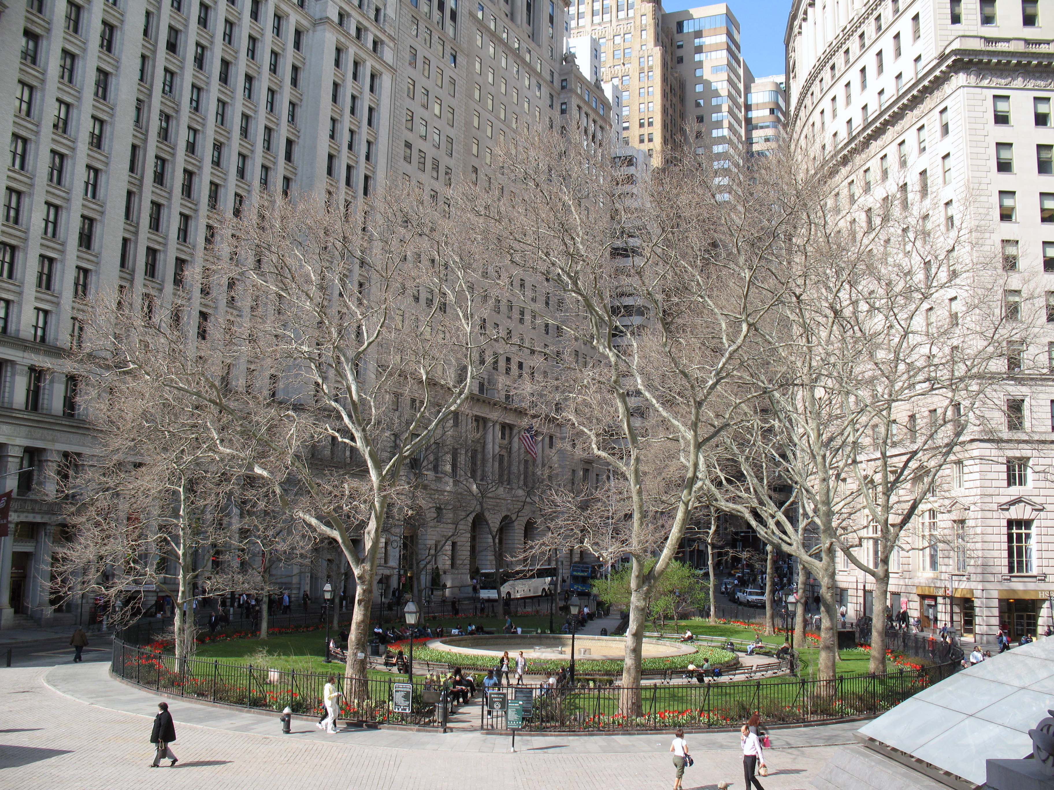 Looking north across Bowling Green from the steps of the National Museum of the American Indian.